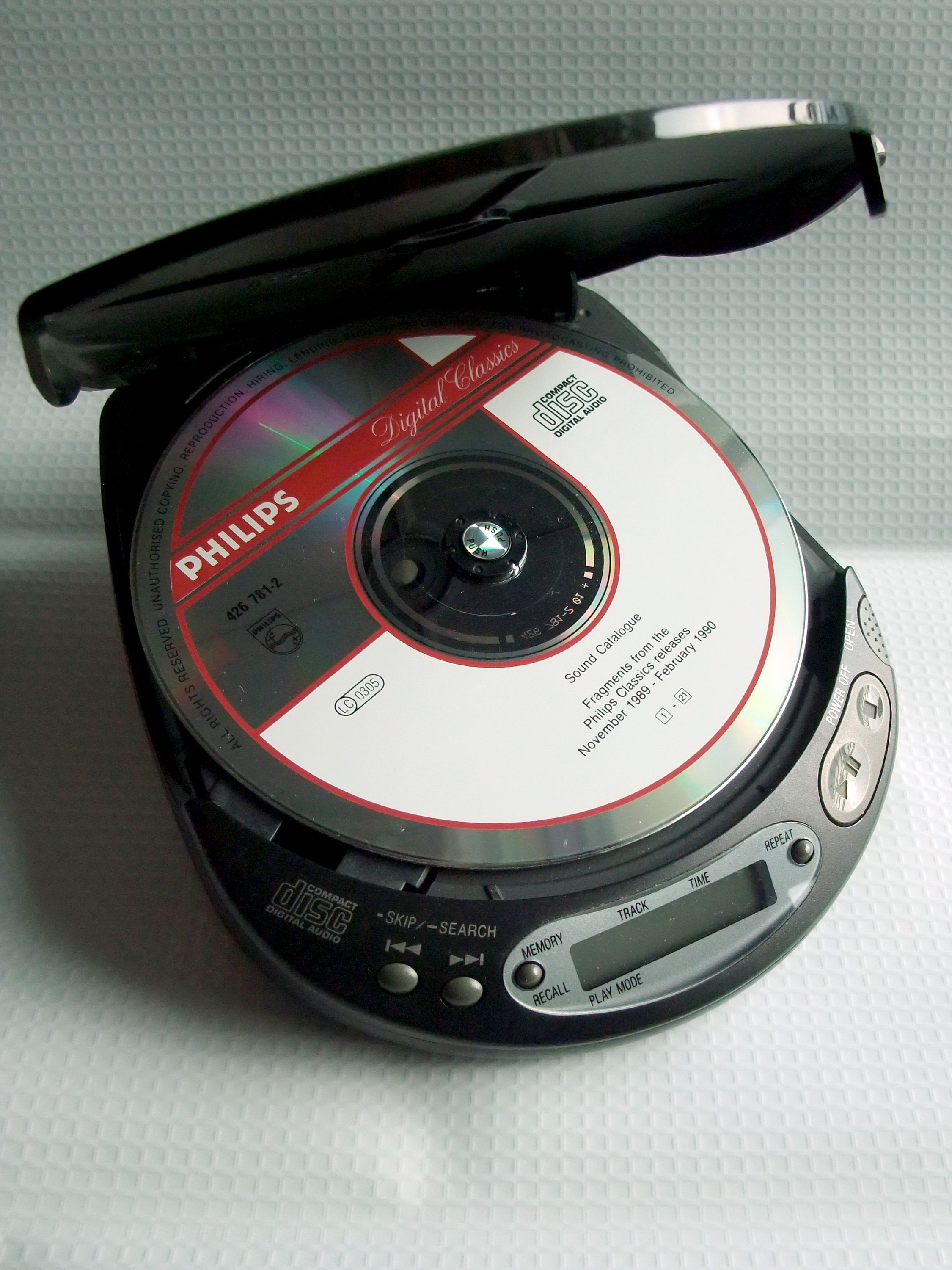 Panasonic CD player SL-S250C with Philips Digital Classics CD.